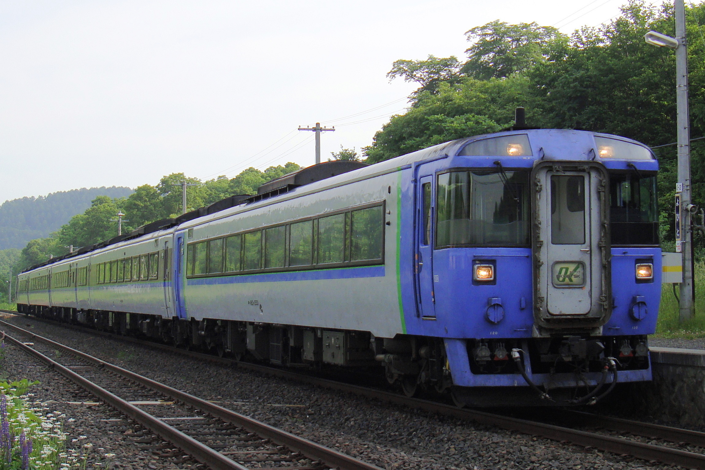 Kiha 183 "Okhotsk" Limited Express train